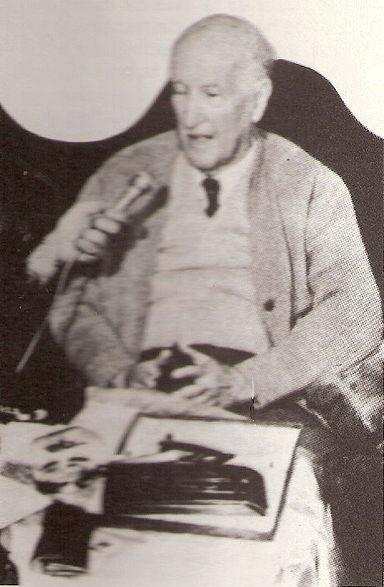 Vicente Aleixandre, Nobel Prize in Literature laureate